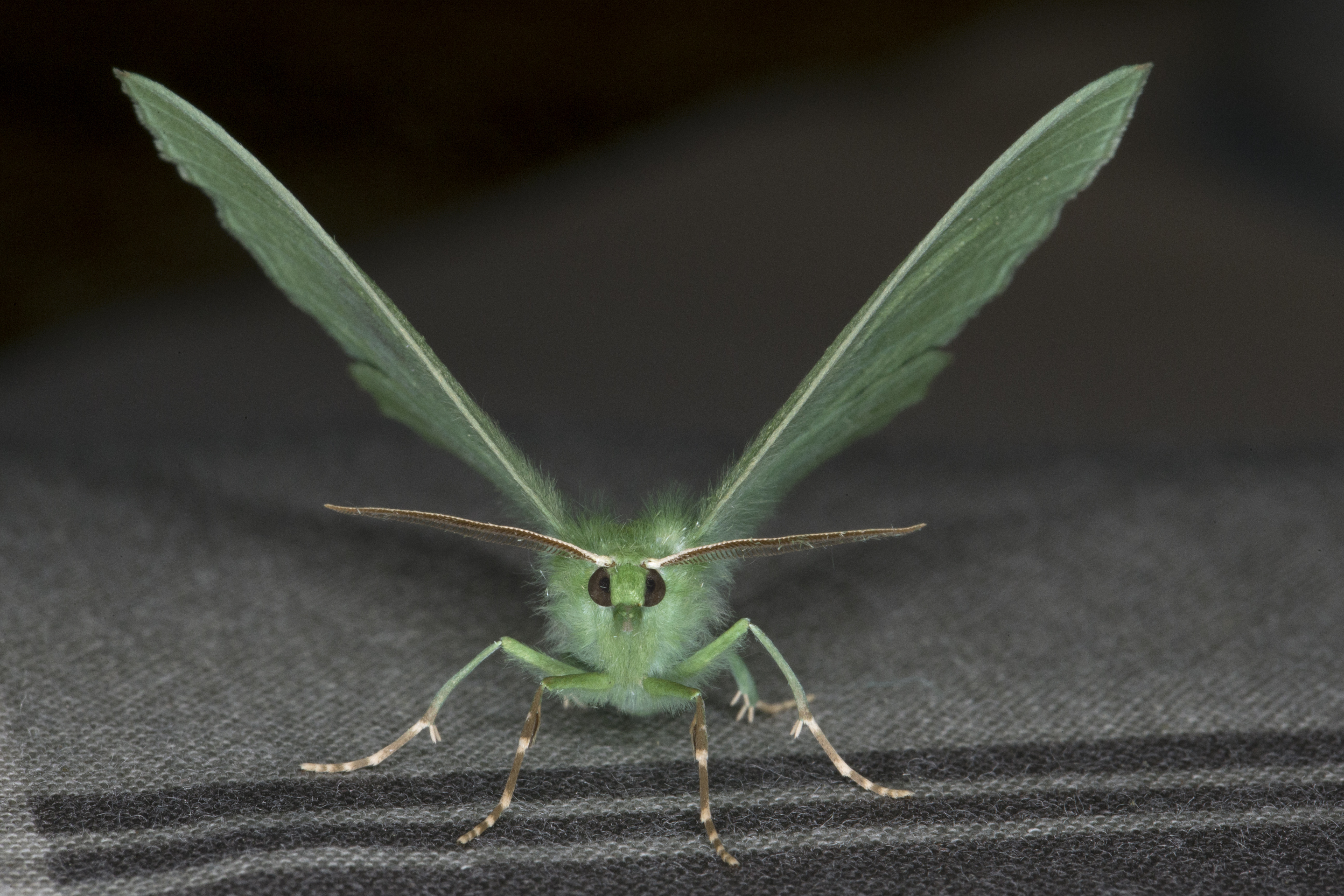 The Large Emerald Geometra papilionaria, Lodz (Poland)